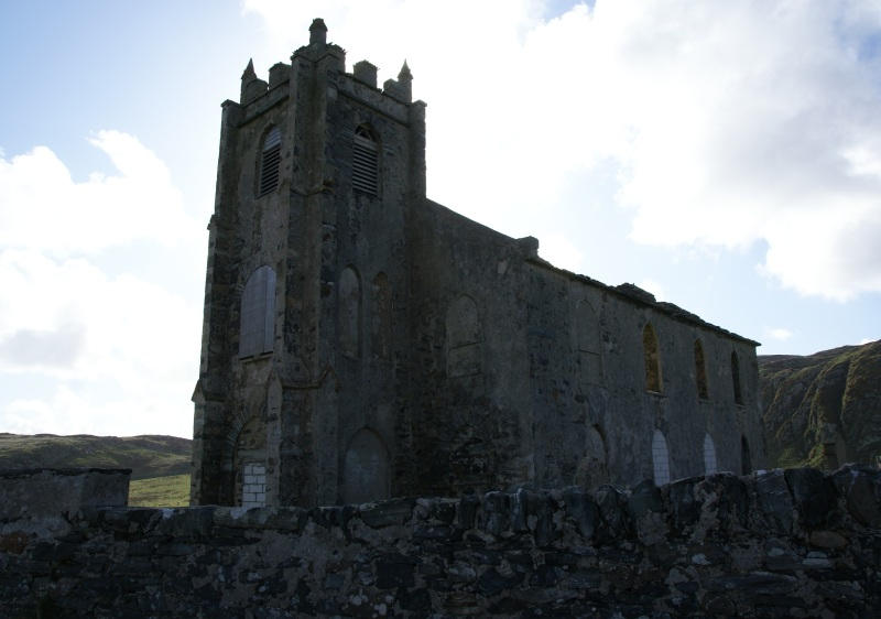 Kilchoman Old Parish Church, Kilchoman, Islay, Argyll and Bute, Scotland.